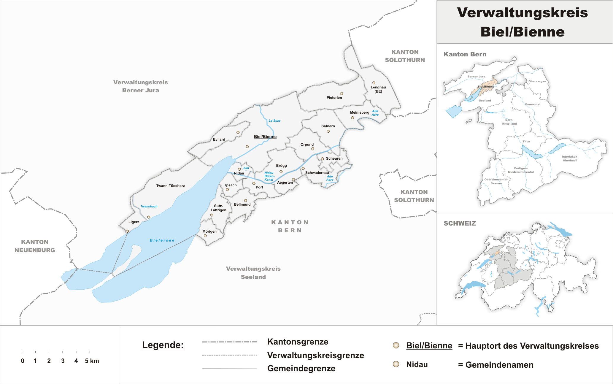 Municipalities in the district of Biel/Bienne